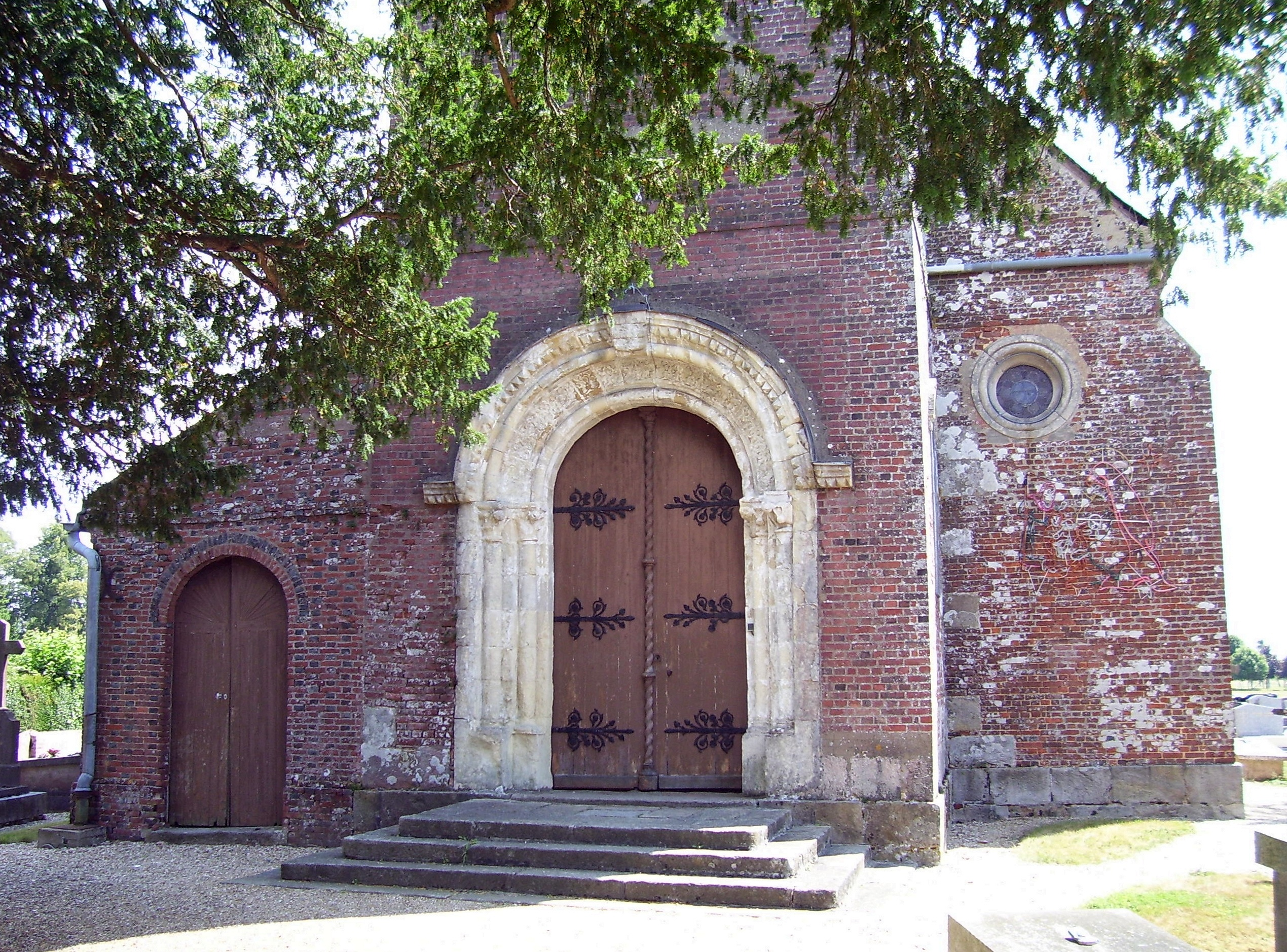 Portal of the church Notre-Dame of La Chapelle-Gauthier (département Eure, Normandie, France).